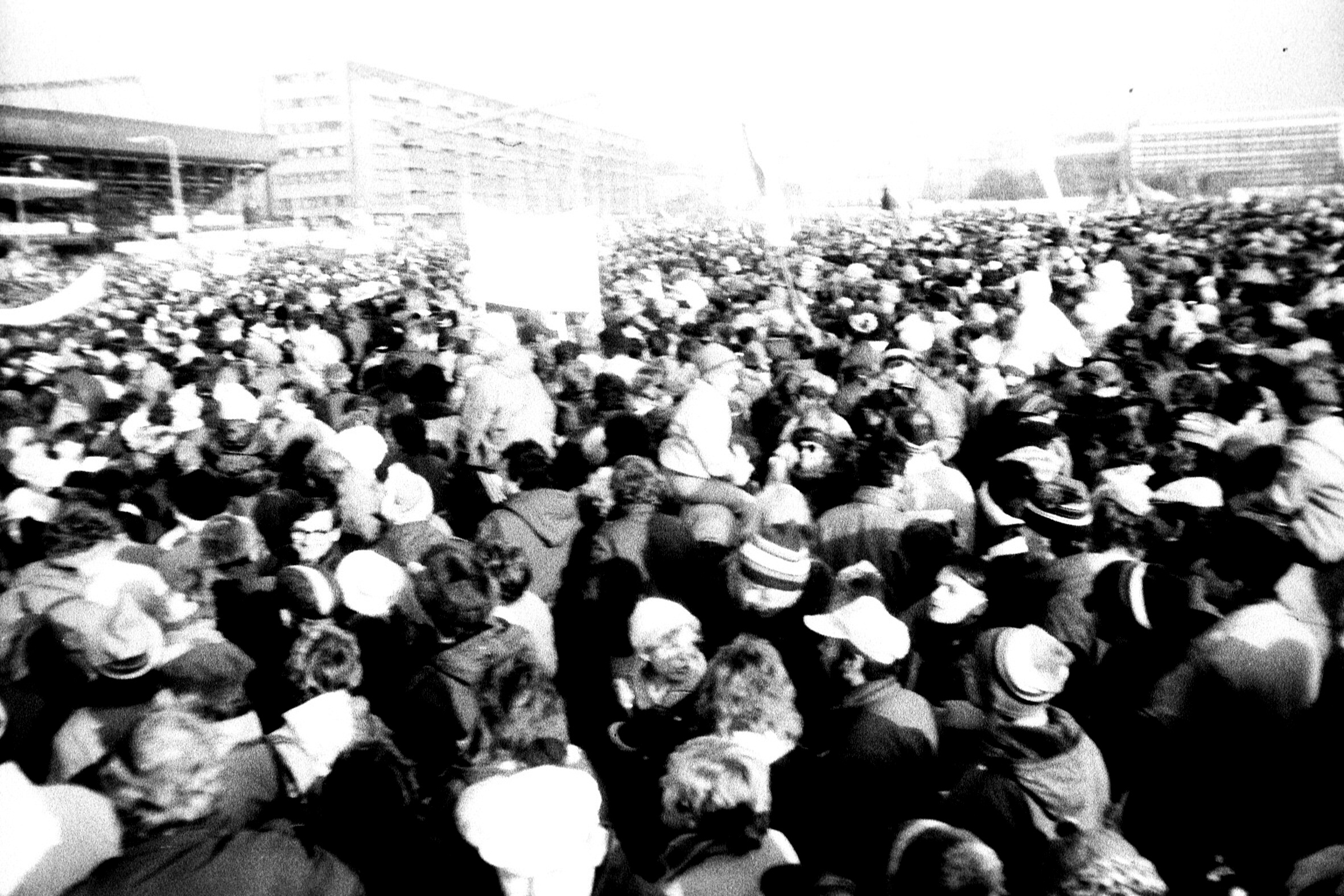 Prague during the Velvet Revolution.